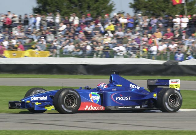 Start Tomáš Enge in Formula 1 - Indianapolis 2001